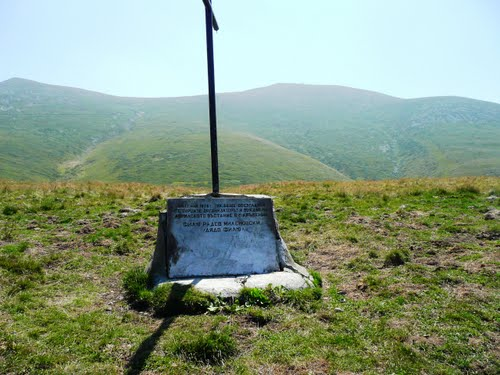 no